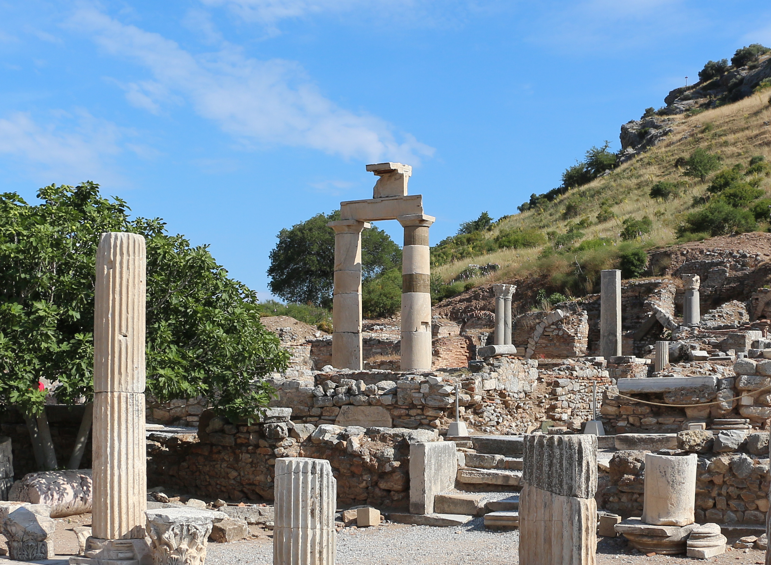 The Prytaneion in Ephesus, Turkey